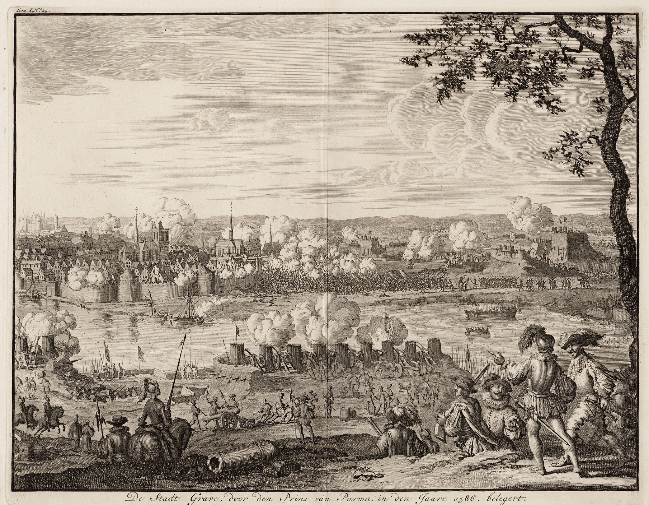 The siege of the town of Grave in 1586 by the Prince of Parma.